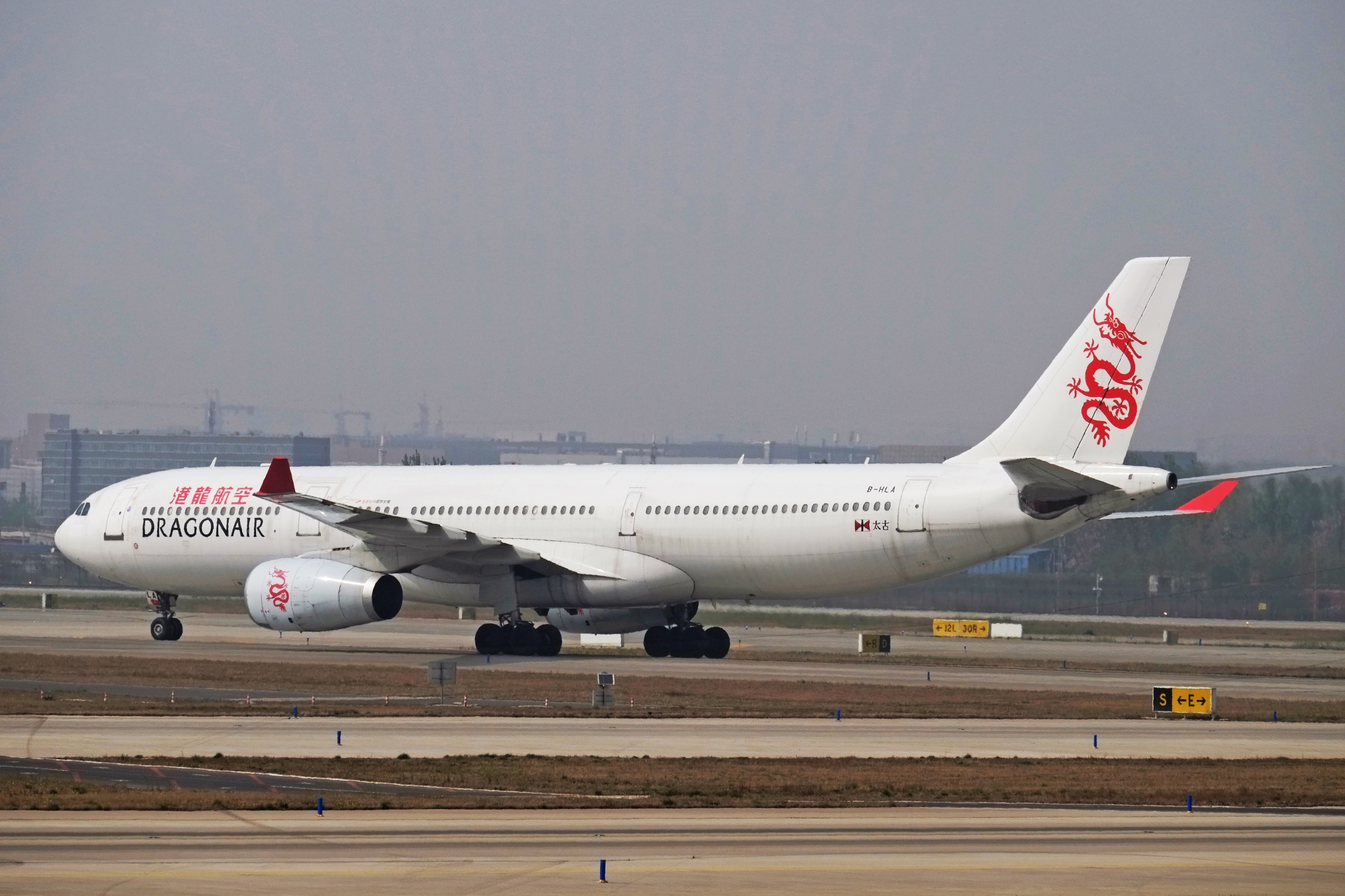 B-HLA on flight KA740 from Hong Kong at CGO